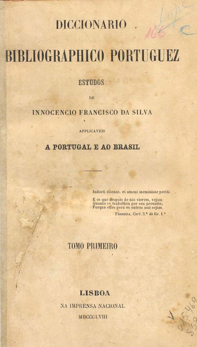 Title page of the first edition (1858) of Inocêncio Francisco da Silva's Diccionario Bibliographico Portuguez Аҧсшәа: Folha de rosto da primeira edição (1858) do Diccionario Bibliographico Portuguez de Inocêncio Francisco da Silva